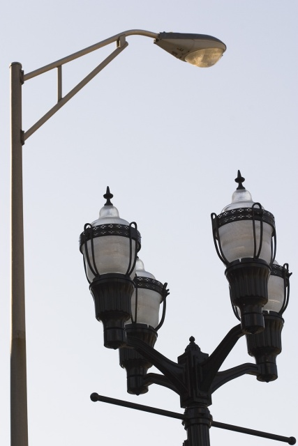 New and old style street lights in Nashville, TN. (Photo by Oleg Volk)